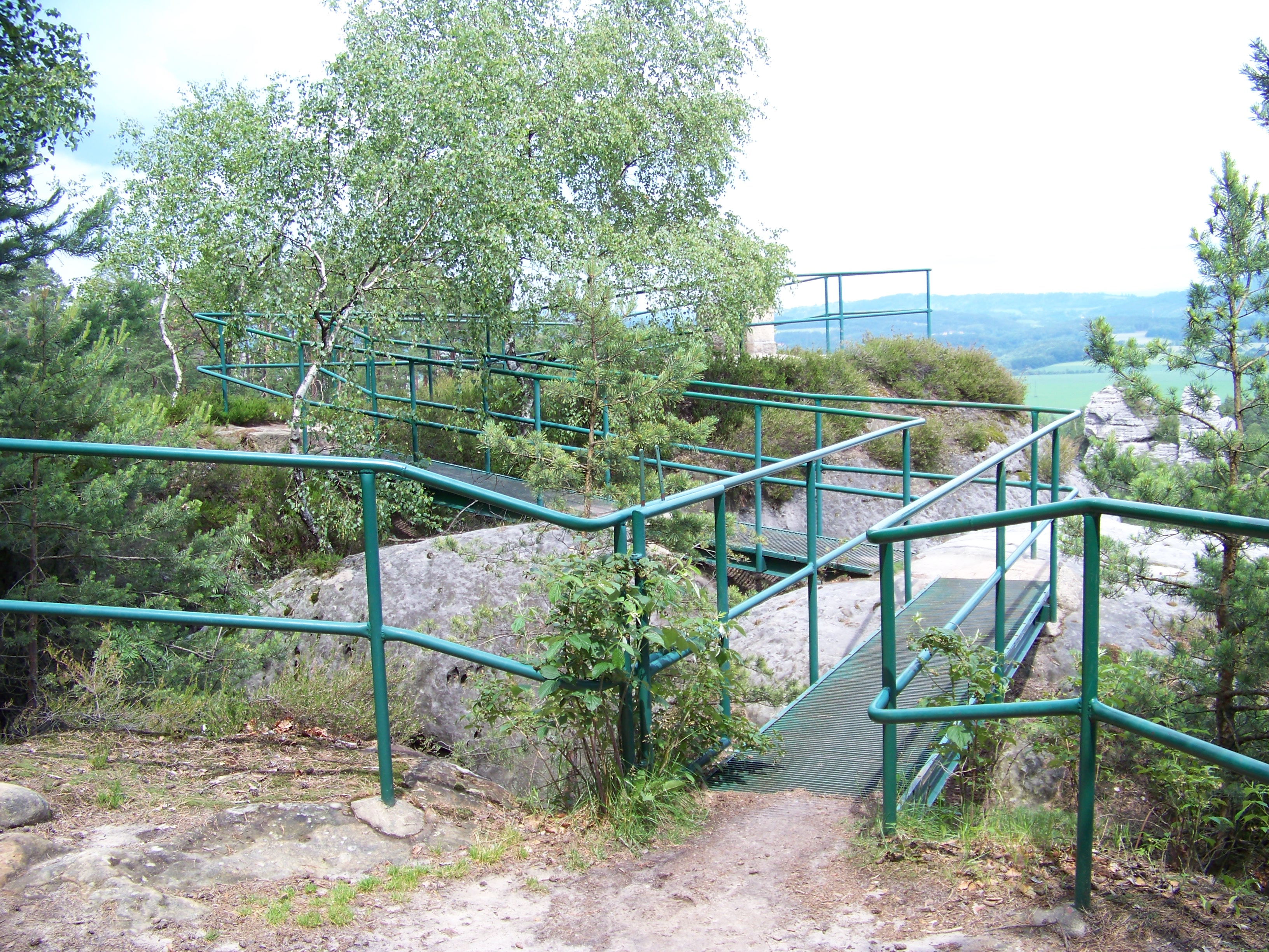 Rocks of Hrubá Skála, Liberec Region, the Czech Republic.